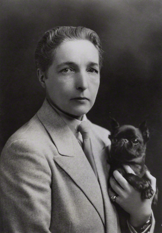 NPG x136620,bromide print. Radclyffe Hall, c. 1930